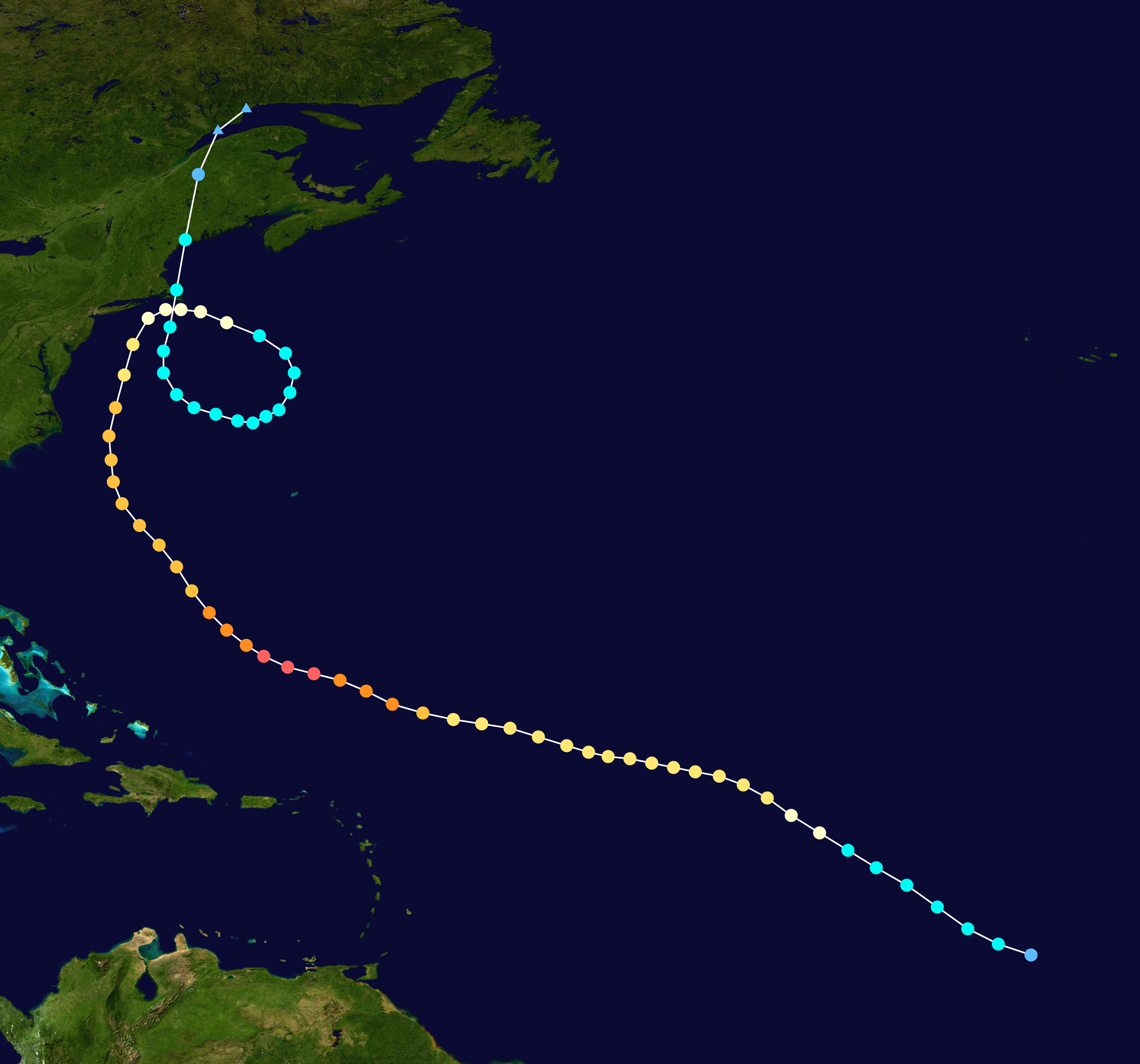 Track map of Hurricane Esther of the 1961 Atlantic hurricane season. The points show the location of the storm at 6-hour intervals. The colour represents the storm's maximum sustained wind speeds as classified in the Saffir–Simpson scale (see below), and the shape of the data points represent the nature of the storm, according to the legend below. Saffir–Simpson scale Tropical depression≤38 mph≤62 km/h Category 3111–129 mph178–208 km/h Tropical storm39–73 mph63–118 km/h Category 4130–156 mph209–251 km/h Category 174–95 mph119–153 km/h Category 5≥157 mph≥252 km/h Category 296–110 mph154–177 km/h Unknown Storm type Tropical cyclone Subtropical cyclone Extratropical cyclone / Remnant low / Tropical disturbance / Monsoon depression